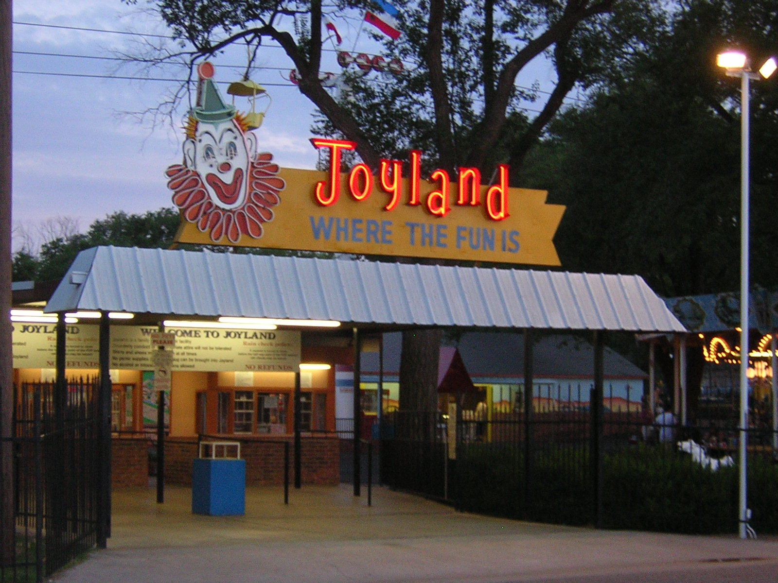 entranc to Joyland Amusement Park in Lubbock, Texas